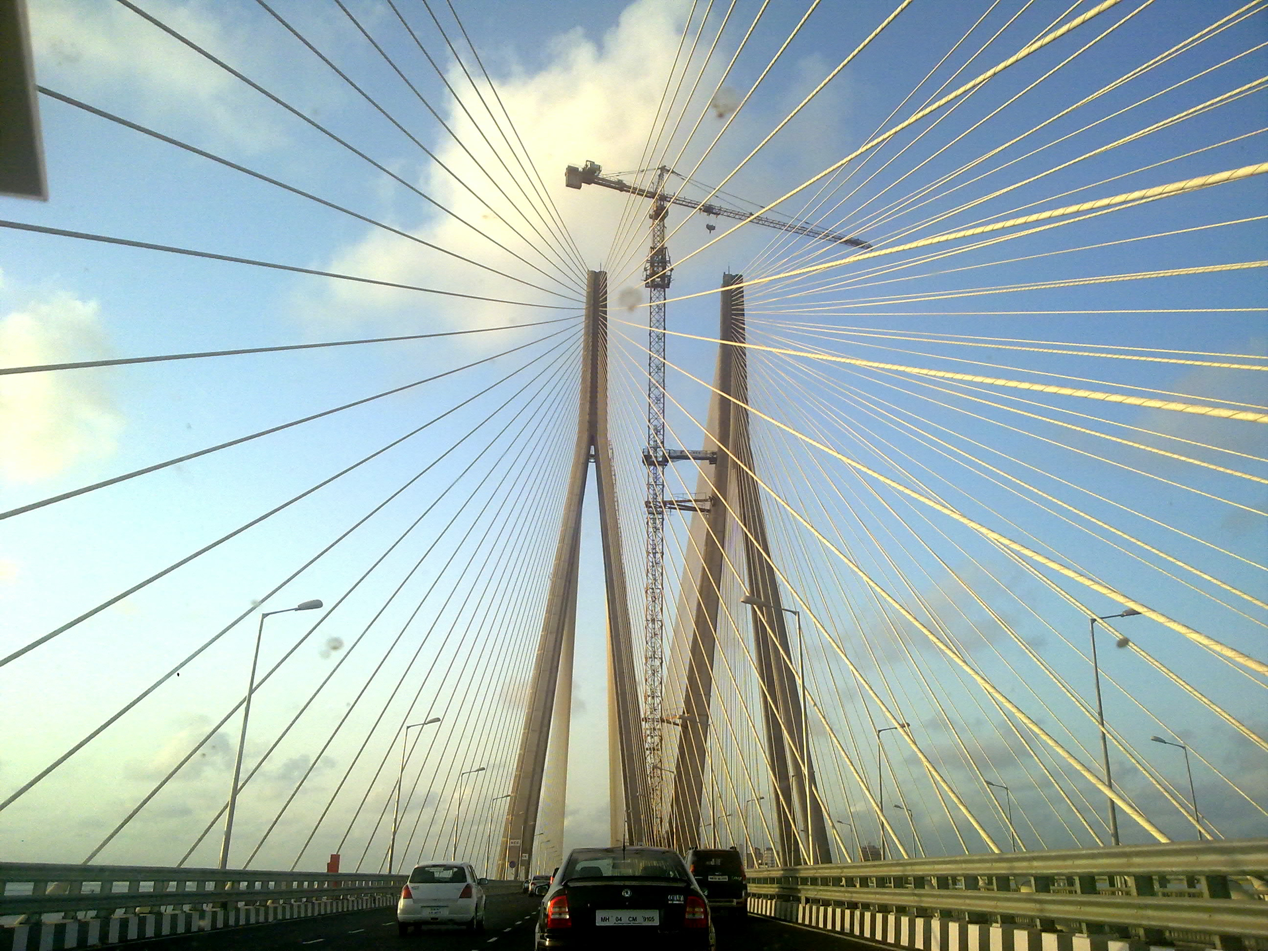 Bandra Worli Sealink Inside View